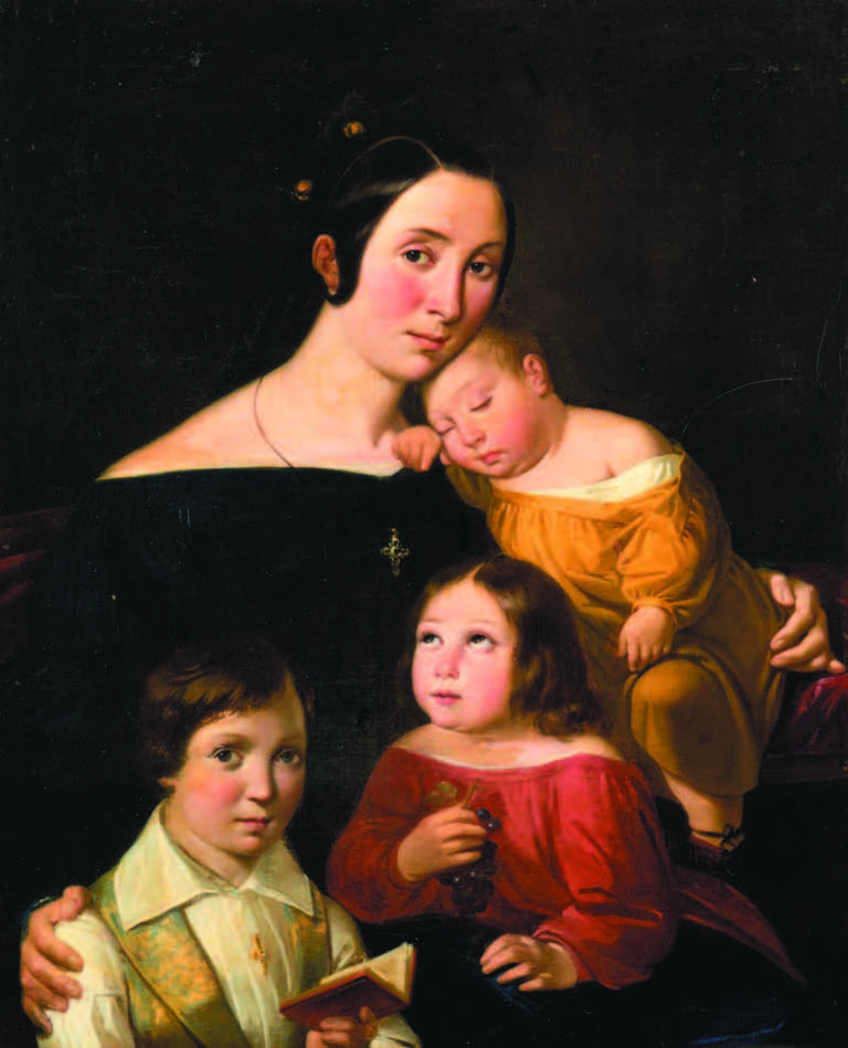 Portrait of the wife of the artist, Lucia Malatesta (sister of Adeodato Malatesta) and their sons.